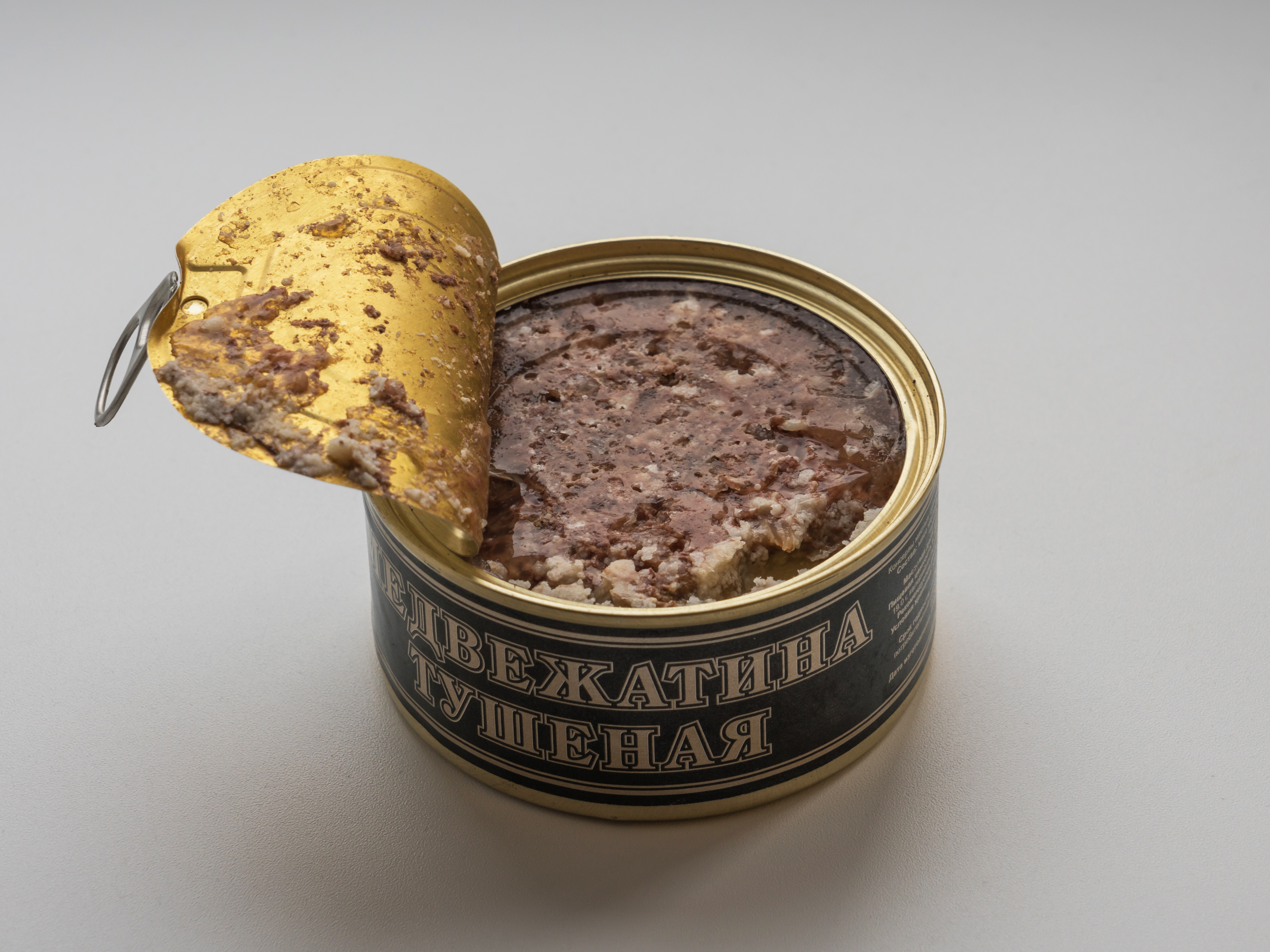 A just opened can of corned bear meat. Produced in Tatarstan/Russia, bought in Moscow.